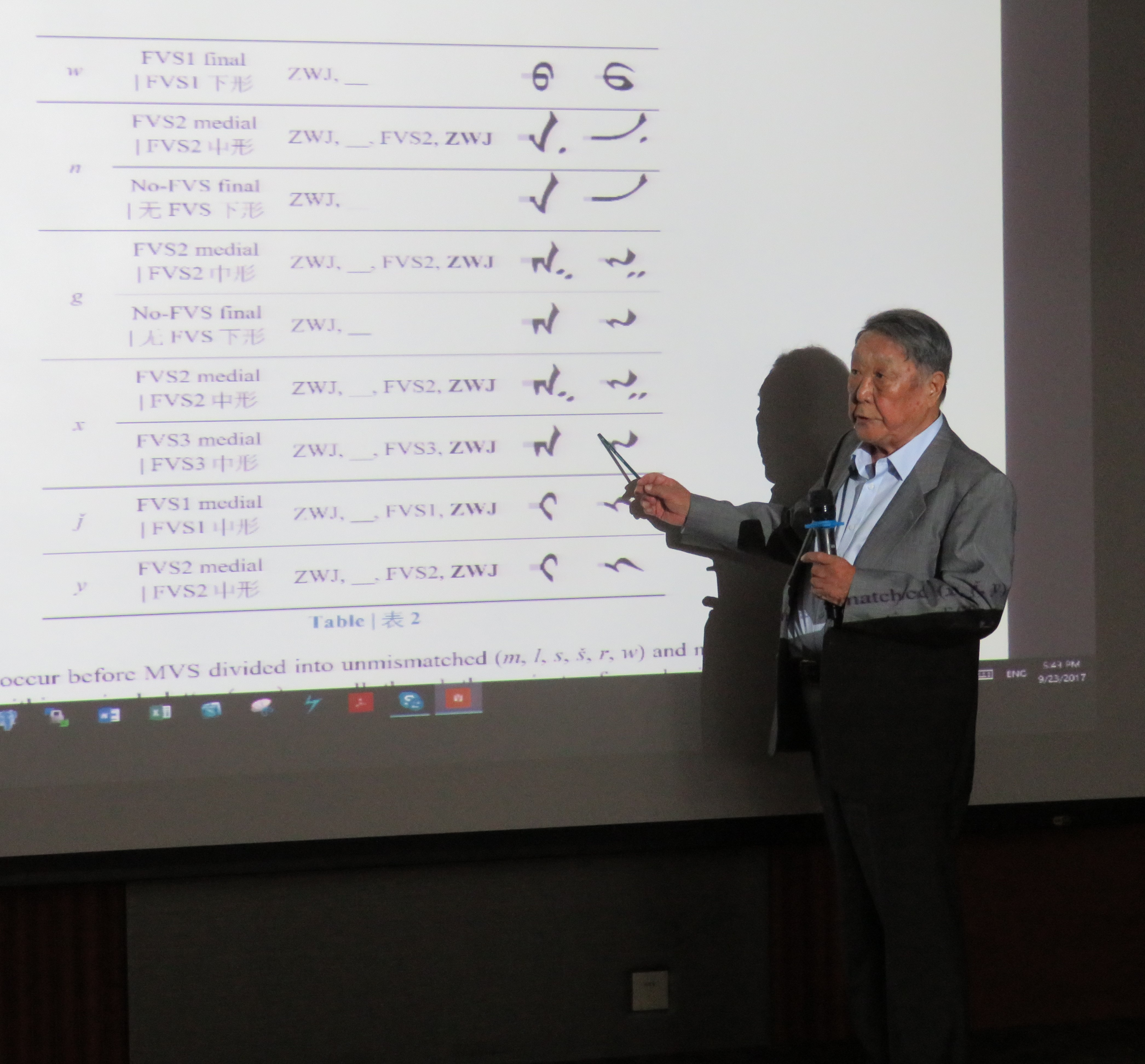 Prof. Choijinzhab of Inner Mongolia University (内蒙古大学) discussing the Unicode encoding model for Mongolian at an international meeting in Hohhot, Inner Mongolia, China, 23 September 2017.